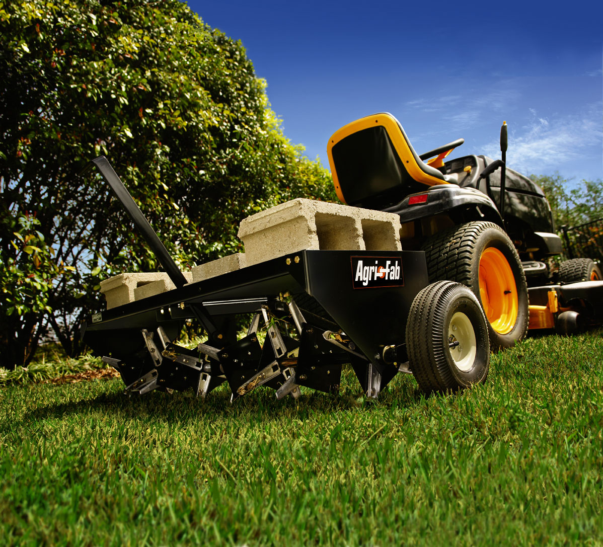 Agri-Fab plug aerator towed by a lawn tractor